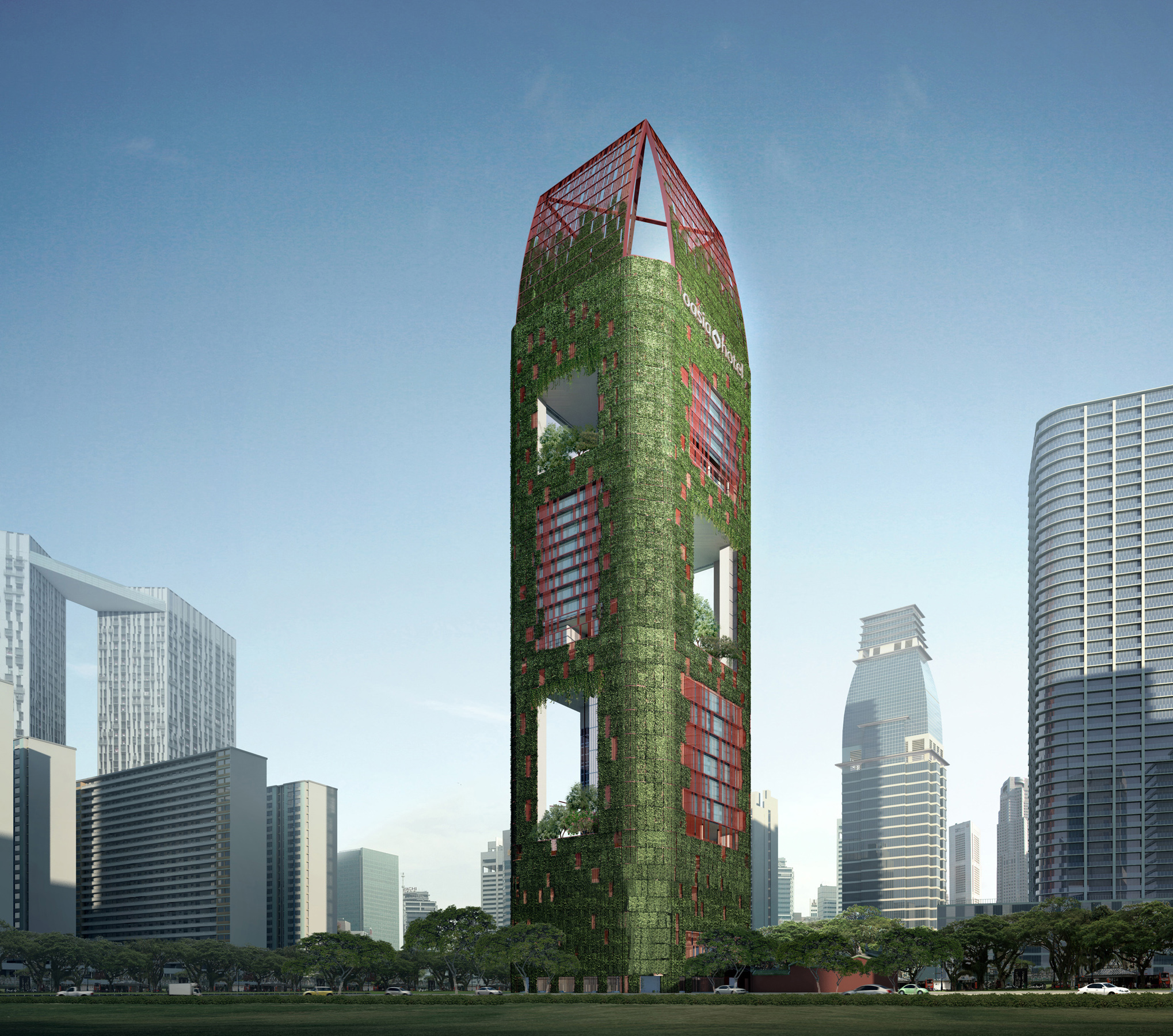 An architectural rendering of Oasia Downtown, Singapore.